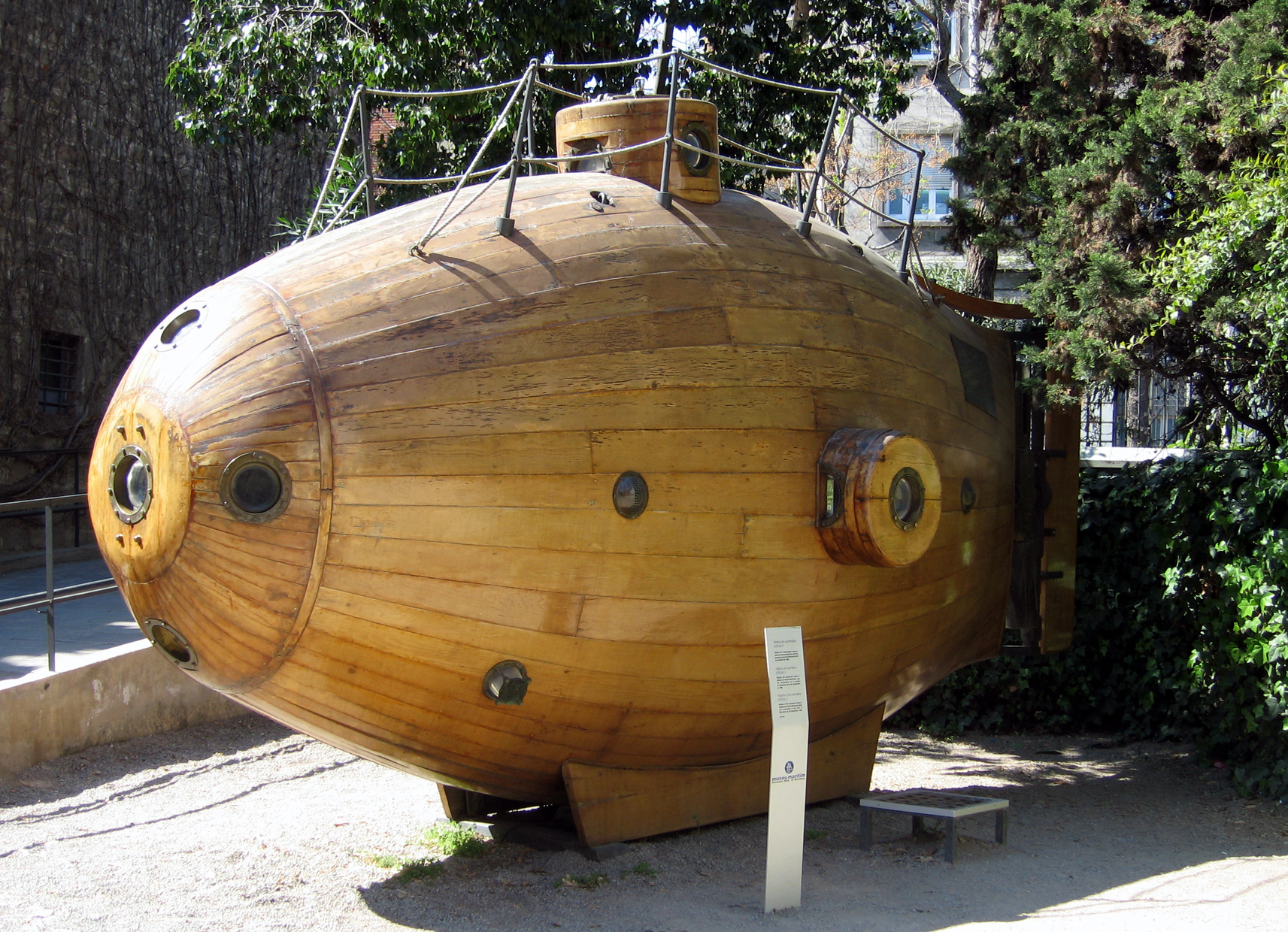 Replica of submarine Ictineu I (1859) from Narcís Monturiol in front of the Museu Marítim in Barcelona.